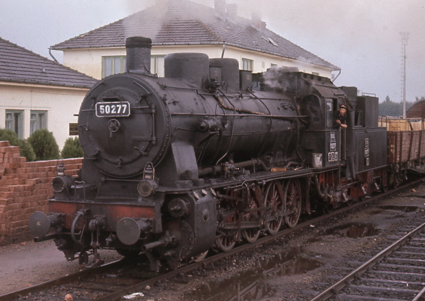 CFR No. 050 277 ex DR 57.3062 ex Hal 5977, Henschel a syn, Kassel 19205/1922 (according to Lacriţeanu, Popescu:Istoricul tracţiunii feroviare din România, vol. 2, Editura ASAB, Bucuresti 2007, ISBN 978-973-7725-29-5), Prussian G10 class, Romania's standard shunter after World War II